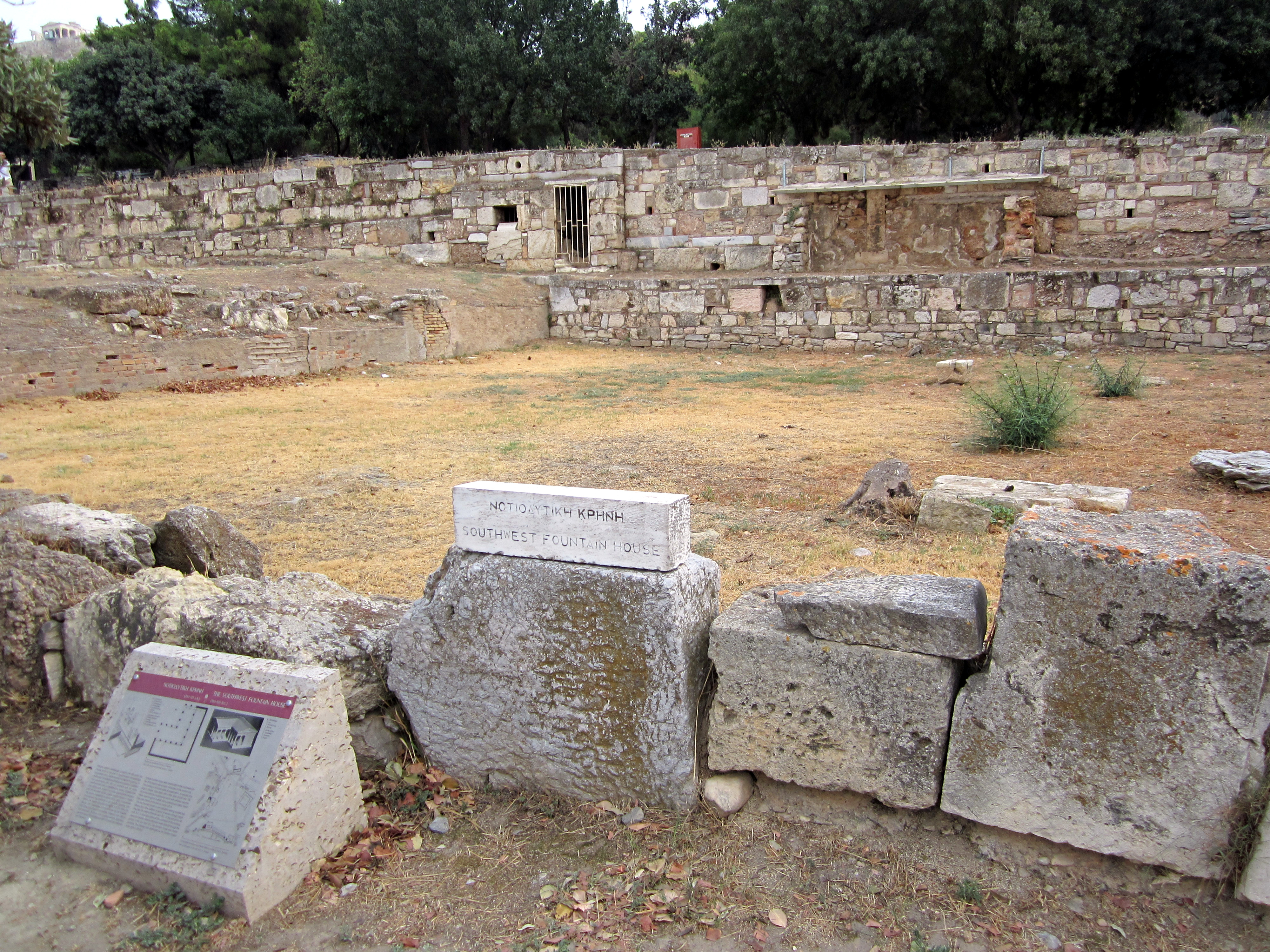 Ruins of the Southwest Fountain House. Ancient Agora of Athens.